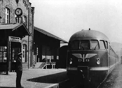 diesel-hydraulic multiple unit class DB VT08